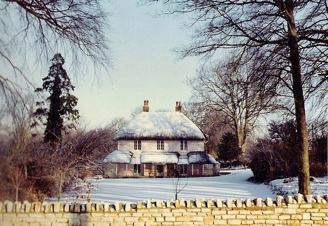 The old Came Rectory. Came Rectory was the home of William Barnes the Dorset dialect poet when he was vicar of St Peter's Winterborne Came and of the little church at Whitcombe. His grave is to be found in the churchyard of St Peter's Winterborne Came.912568